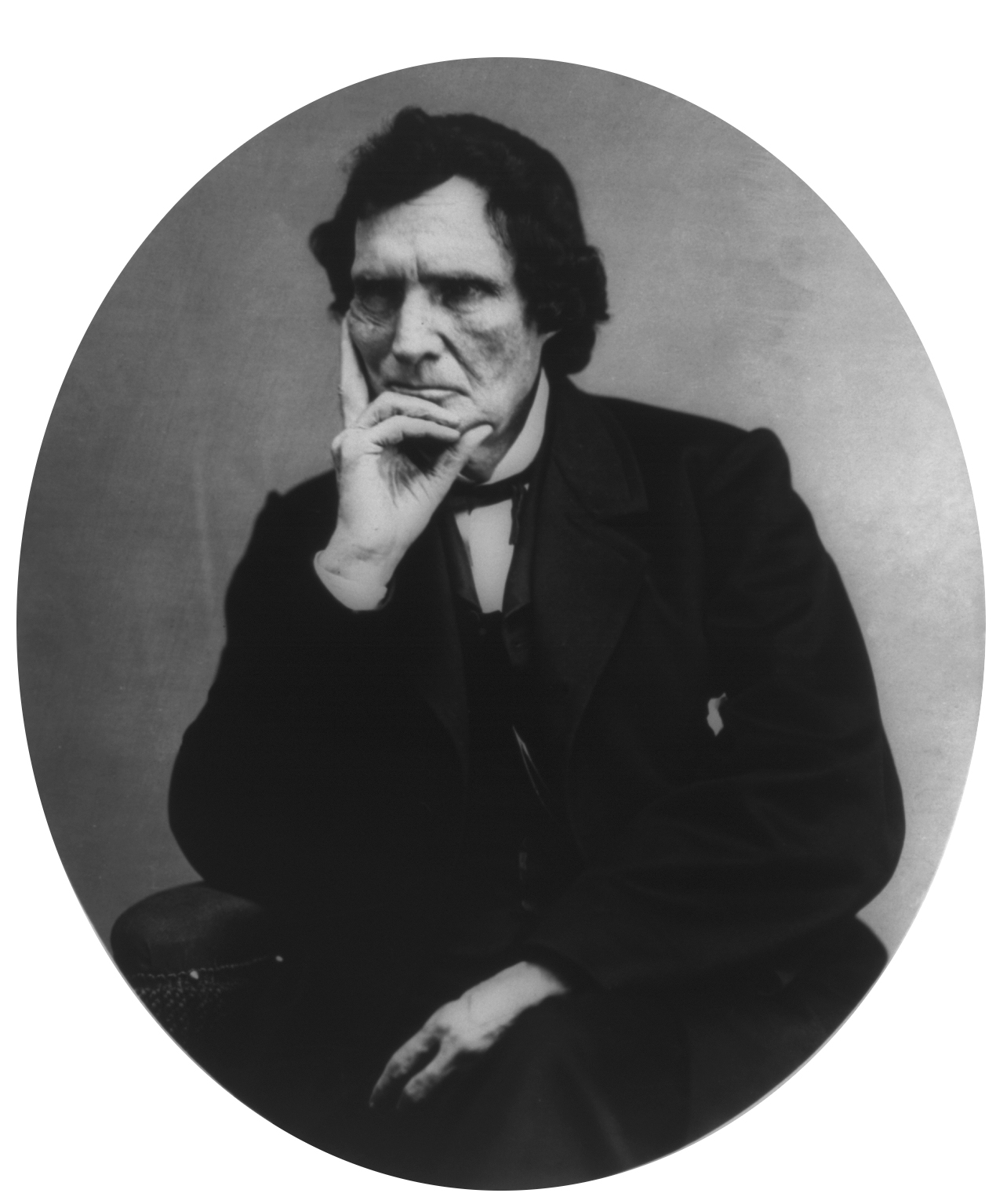 Thaddeus Stevens portrait.